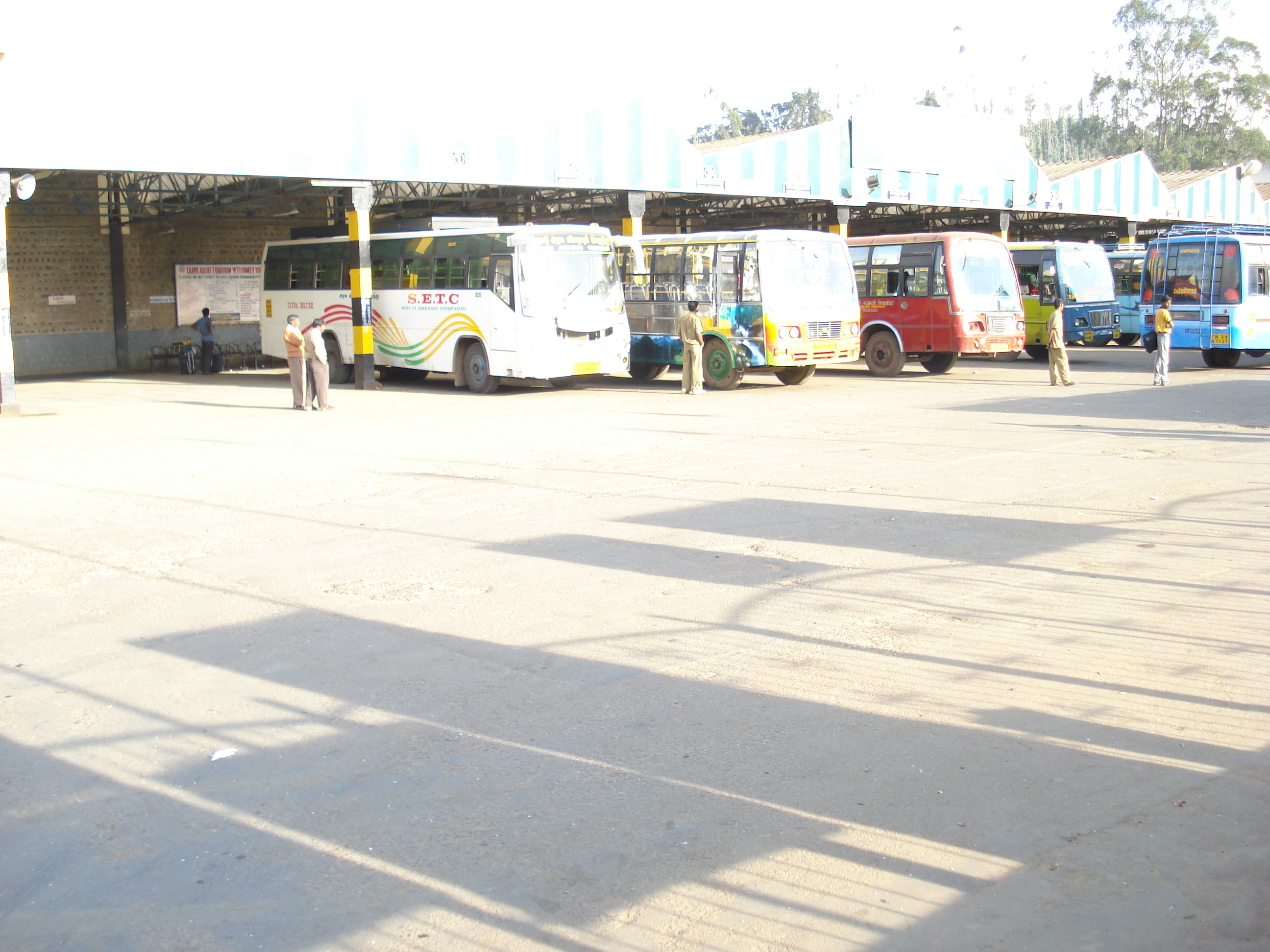 Ooty bus stand (near Kathadimattam) with bays